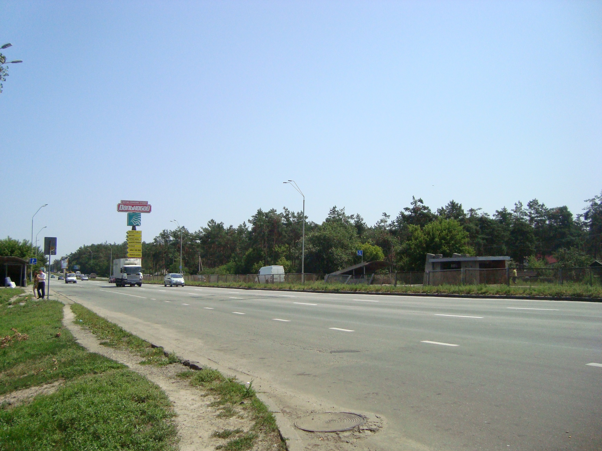 M 01 road in Kyiv